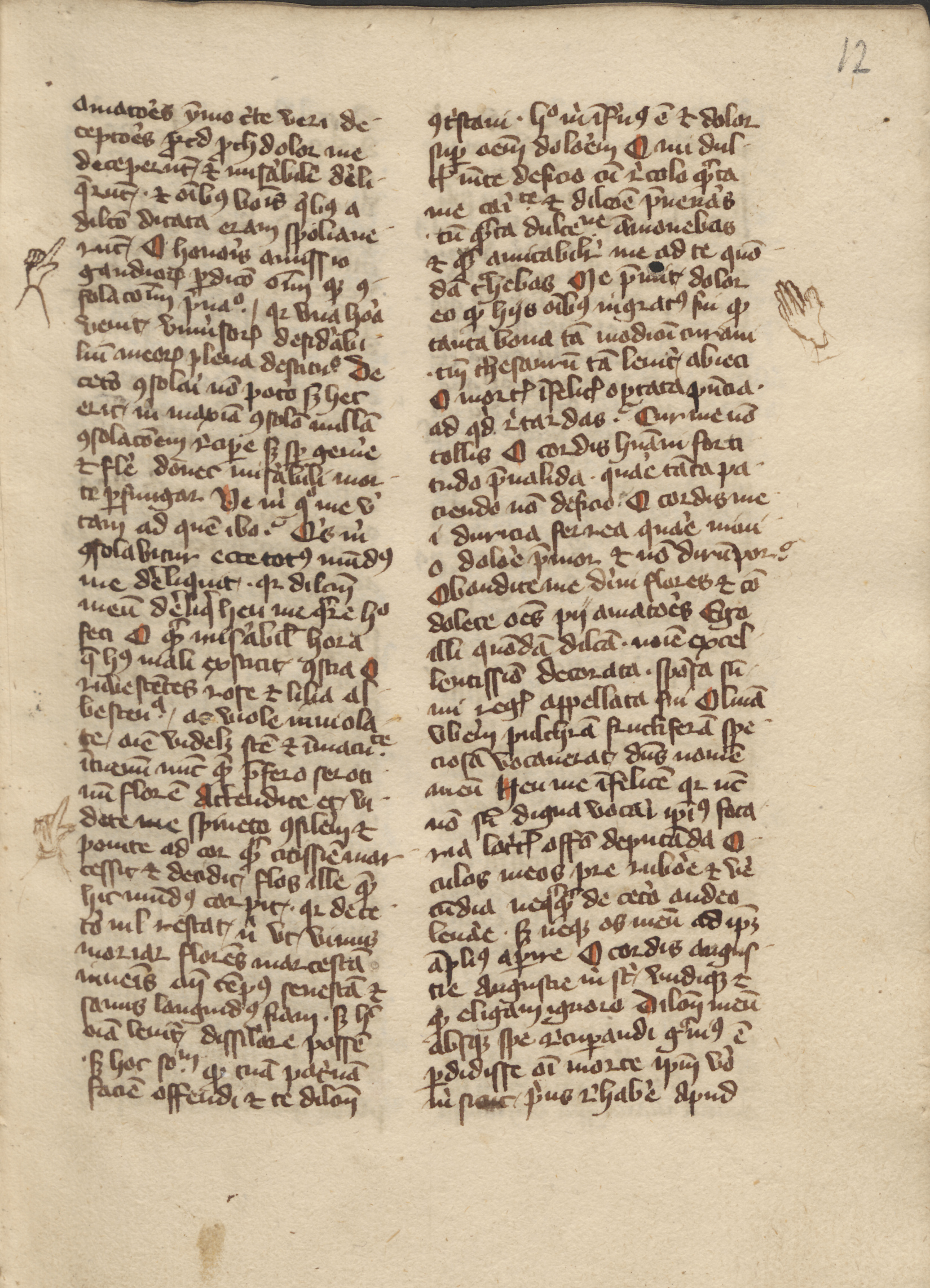 Ms.290, fol. 12r.